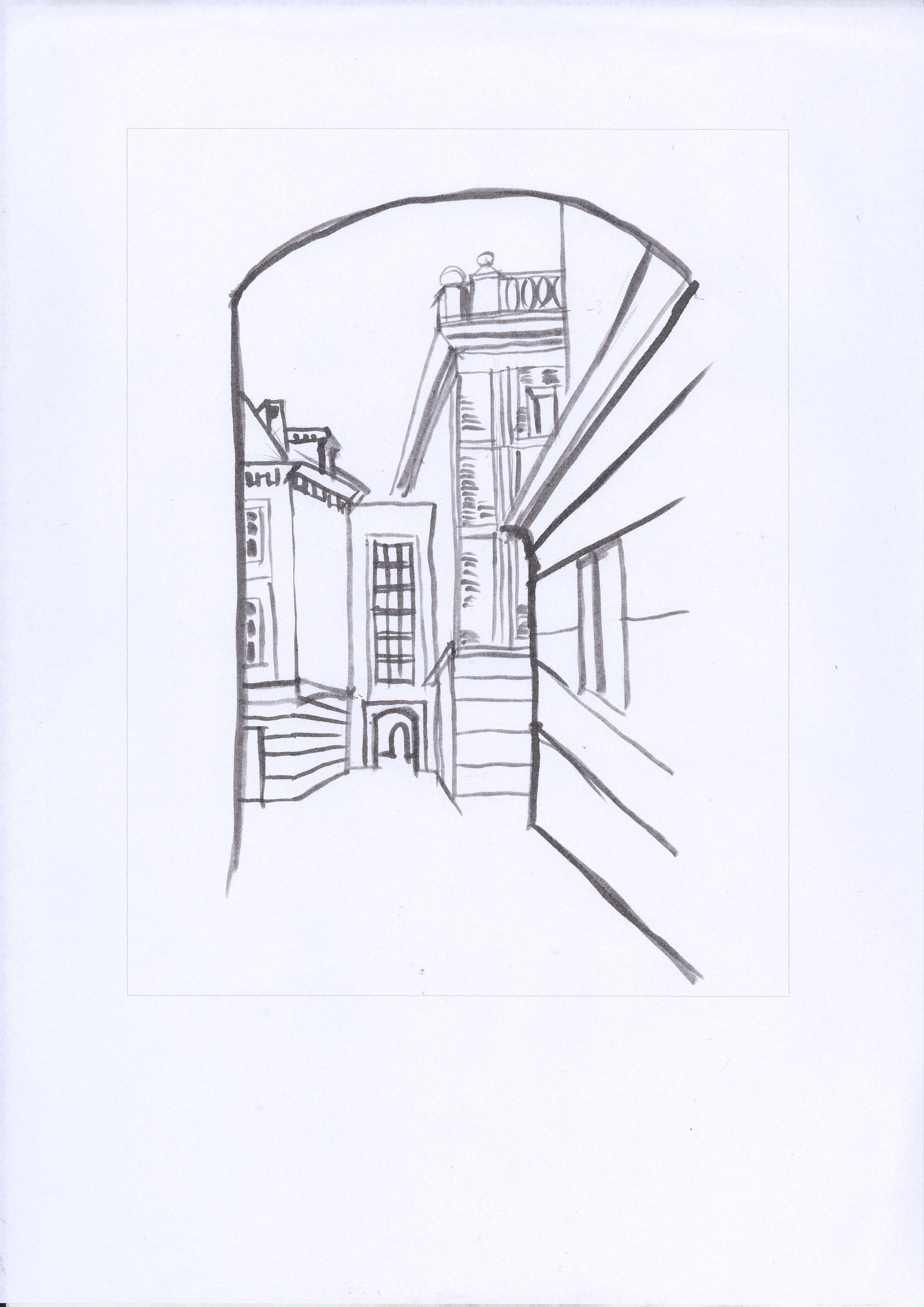 Jaśmina Wójcik, artwork from the series "Zygmunt Stępiński"